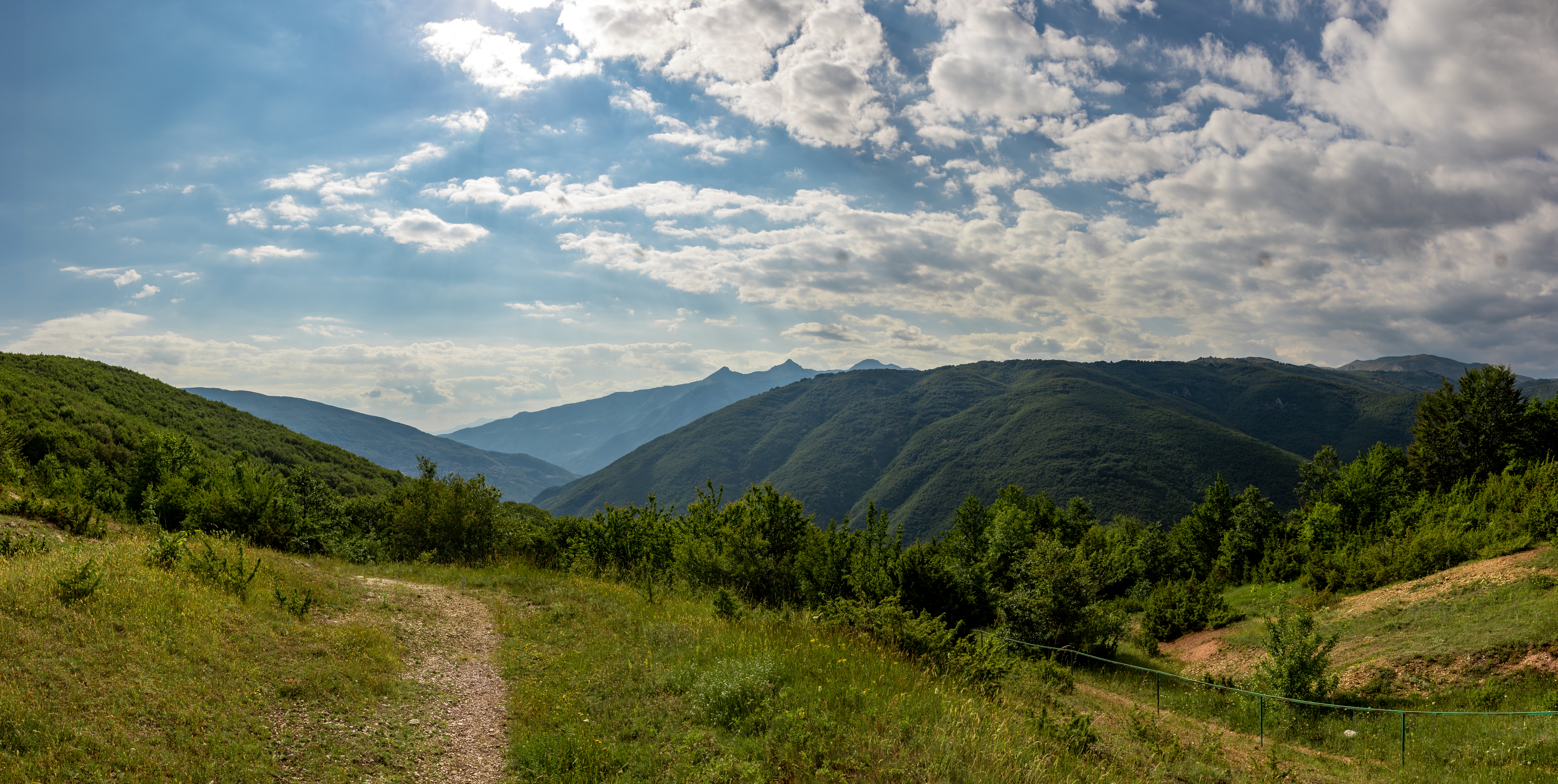 Panoramic view of the National Park Mavrovo